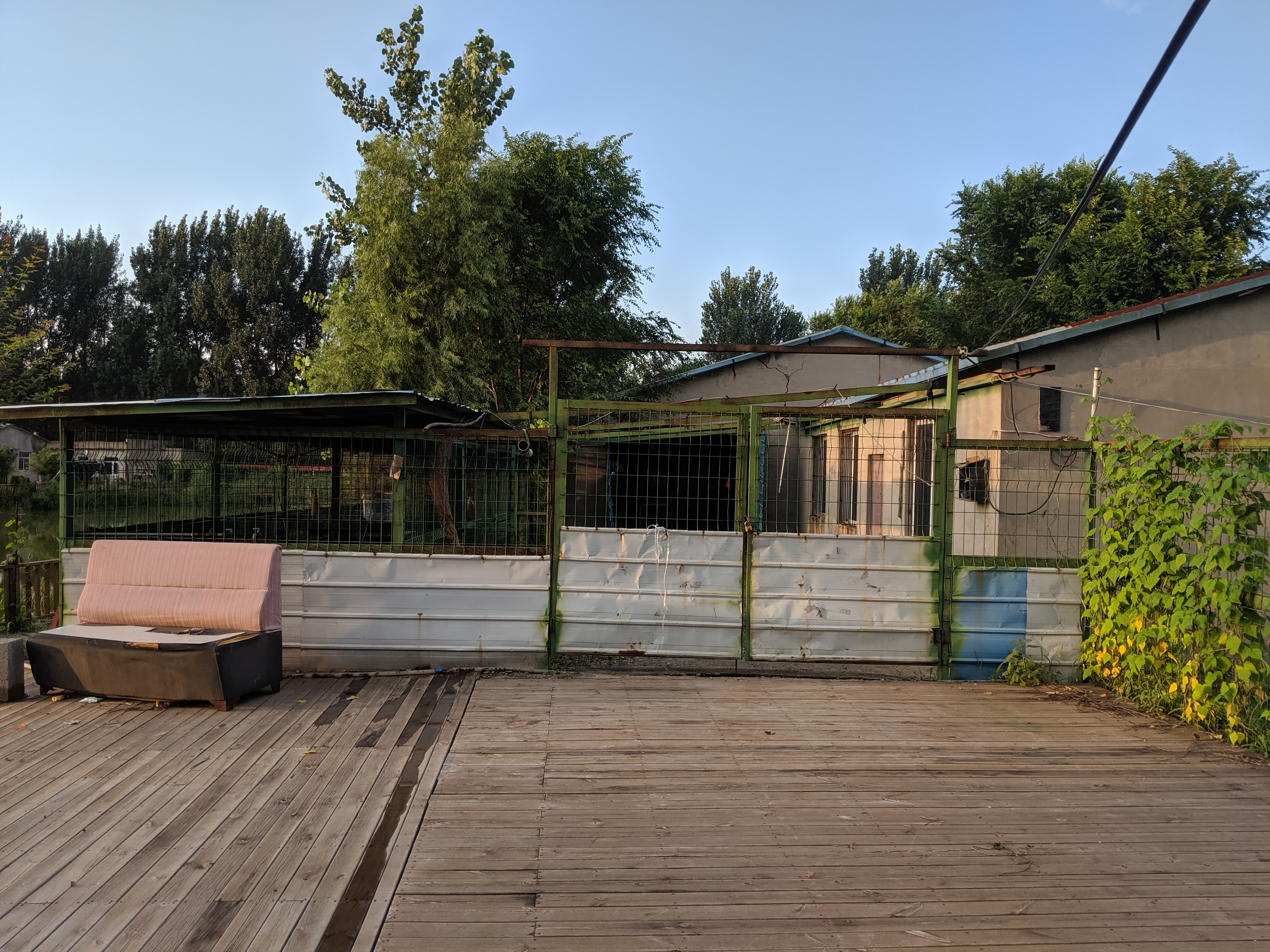 Shenbei New District Puhe town 3 - an abandoned pig-keeping building for African swine outbreak in China.